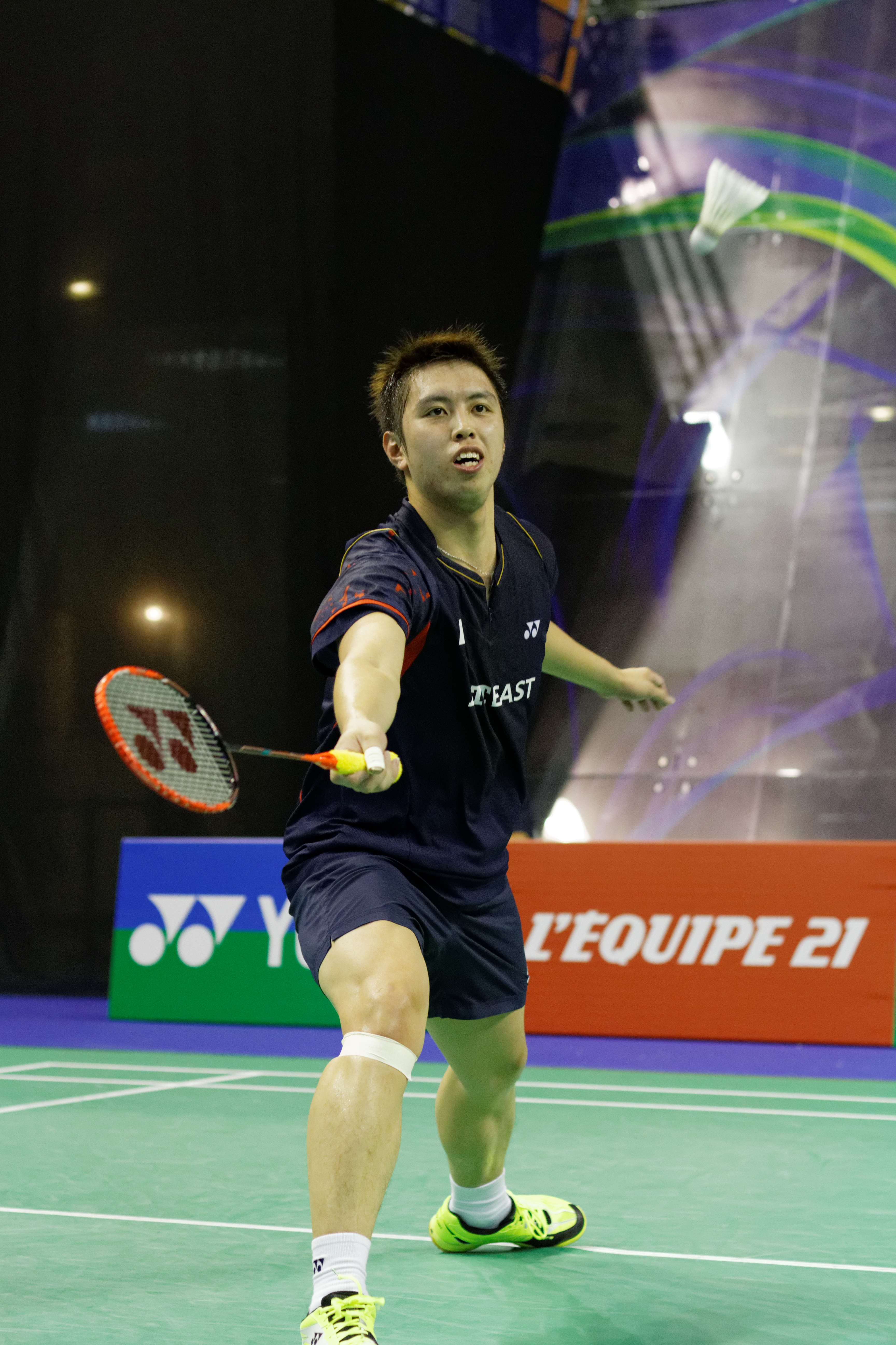 2013 French open. Men's singles quarterfinal. Kenichi Tago vs Tommy Sugiarto.